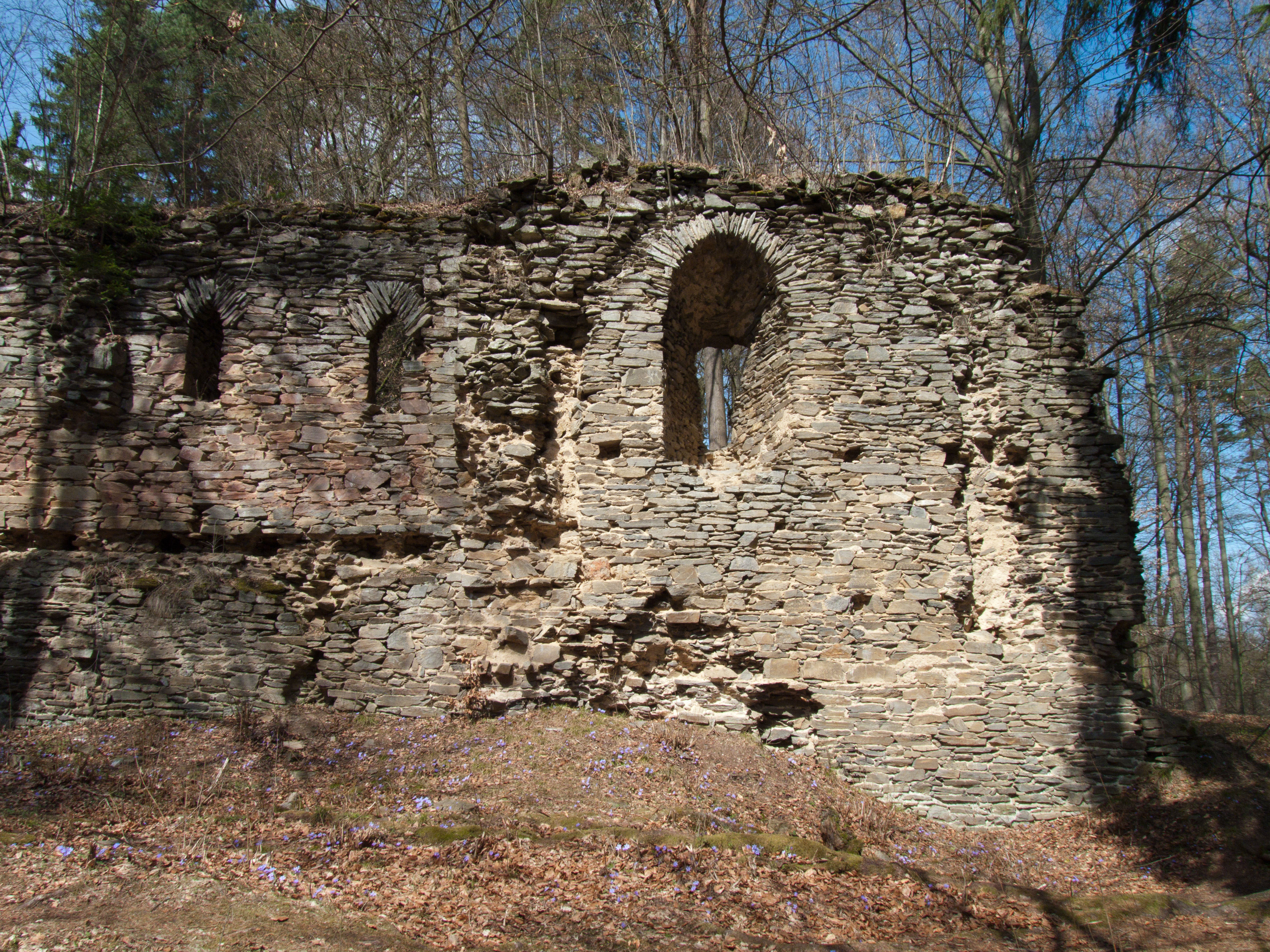 Gothic windows in the ruins of a chapel wall of Karlův hrádek (Charles Castle) near the village of Purkarec, České Budějovice District, Czech Republic